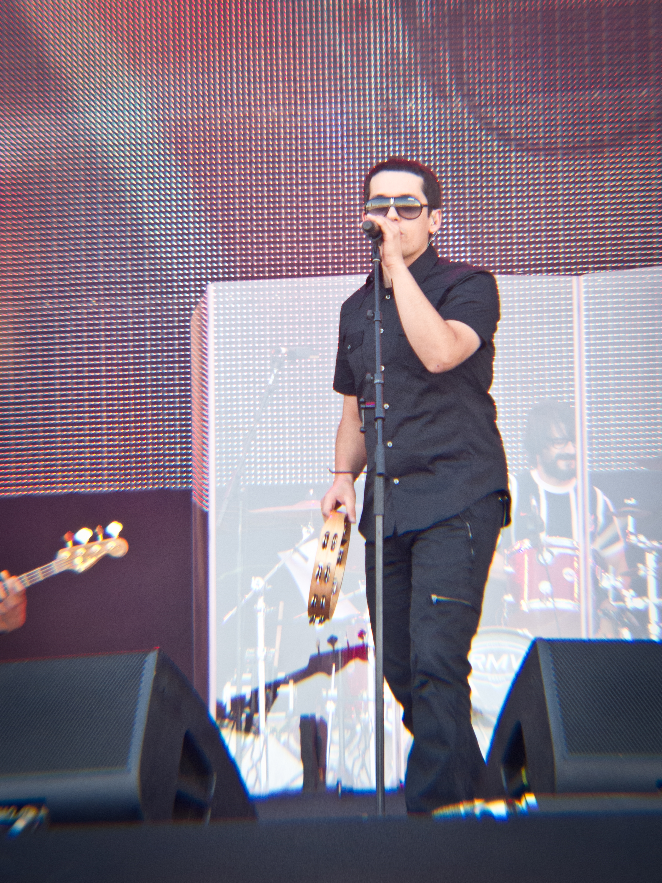 Maldita Nerea in Rock in Rio Madrid 2012.